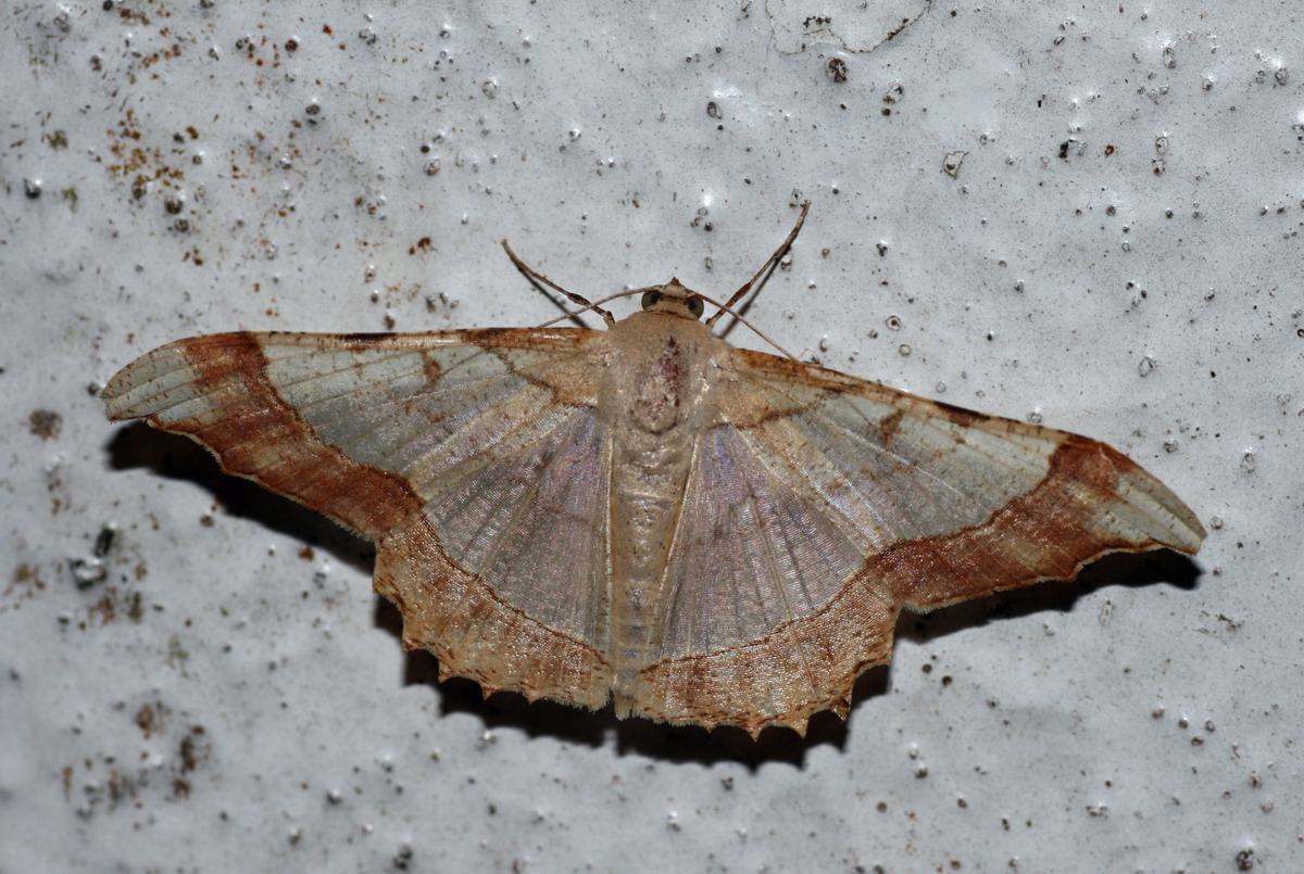 Malaysia, Fraser's Hill, March 2009